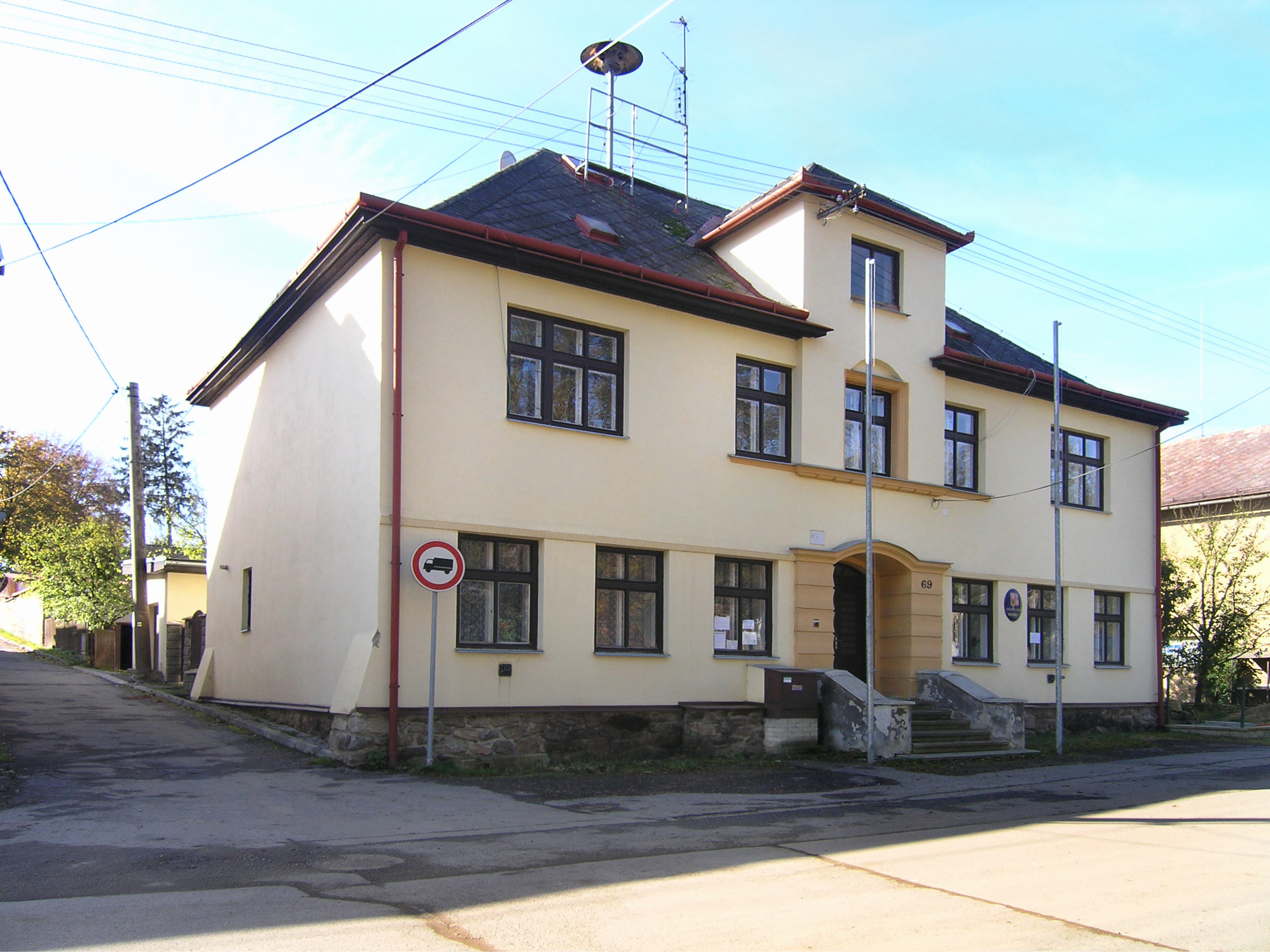 Municipal office in Hybrálec, Czech Republic